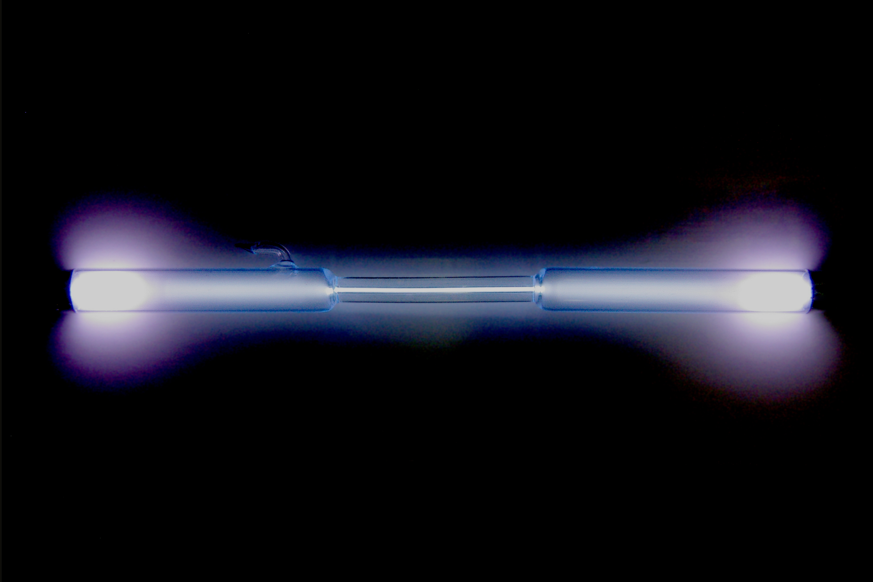 Spectrum = gas discharge tube: the noble gas: xenon Xe. Used with 1,8kV, 18mA, 35kHz. ≈8" length.